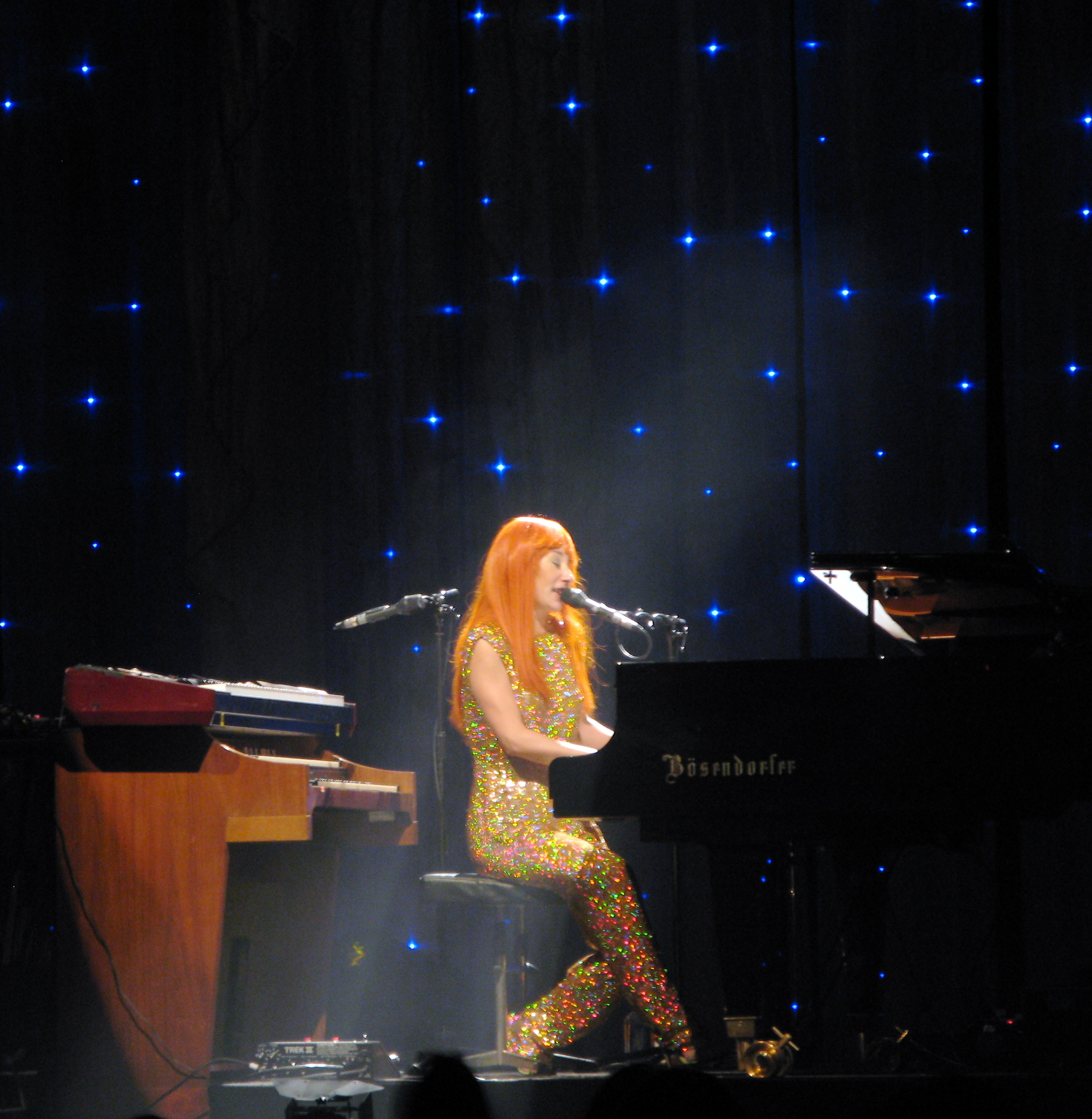 Tori Amos, Dodge Theatre, Phoenix, 12-11-07.